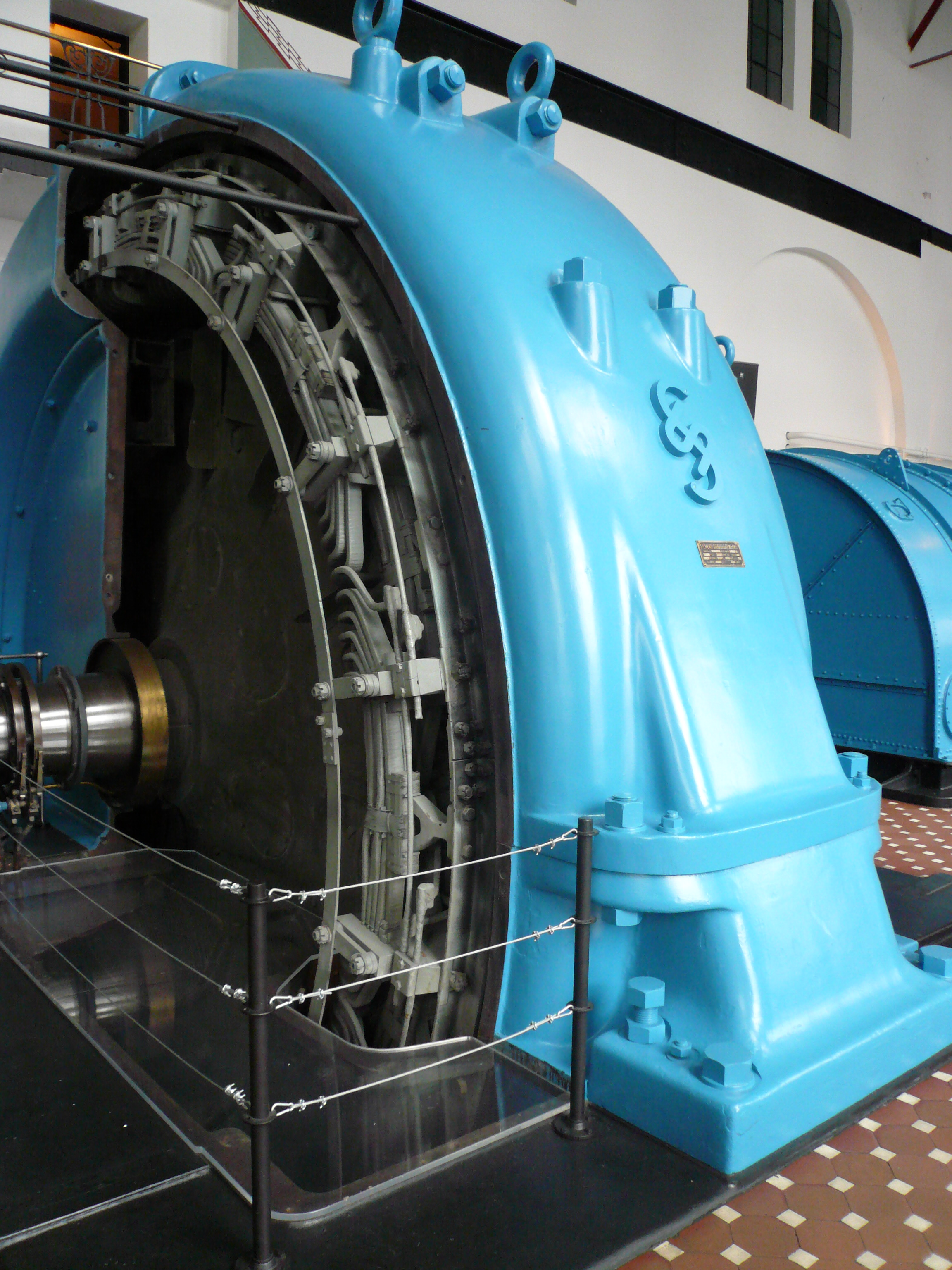 Tyssedal